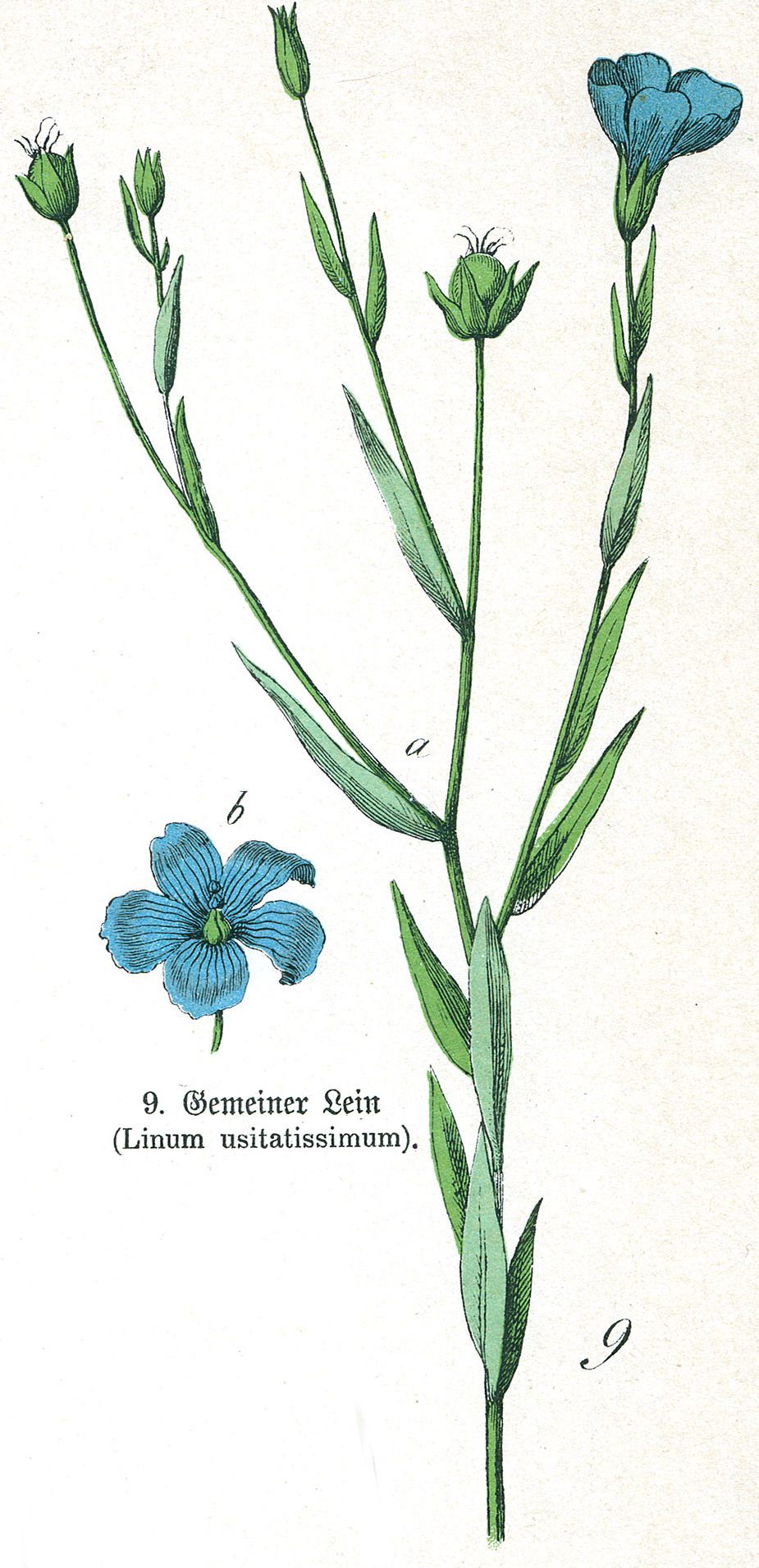 Linum usitatissimum, illustration from «Naturgeschichte des Pflanzenreichs», table XVI (fragment)